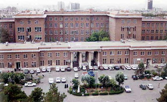 imam khomeyni hospital of TUMS